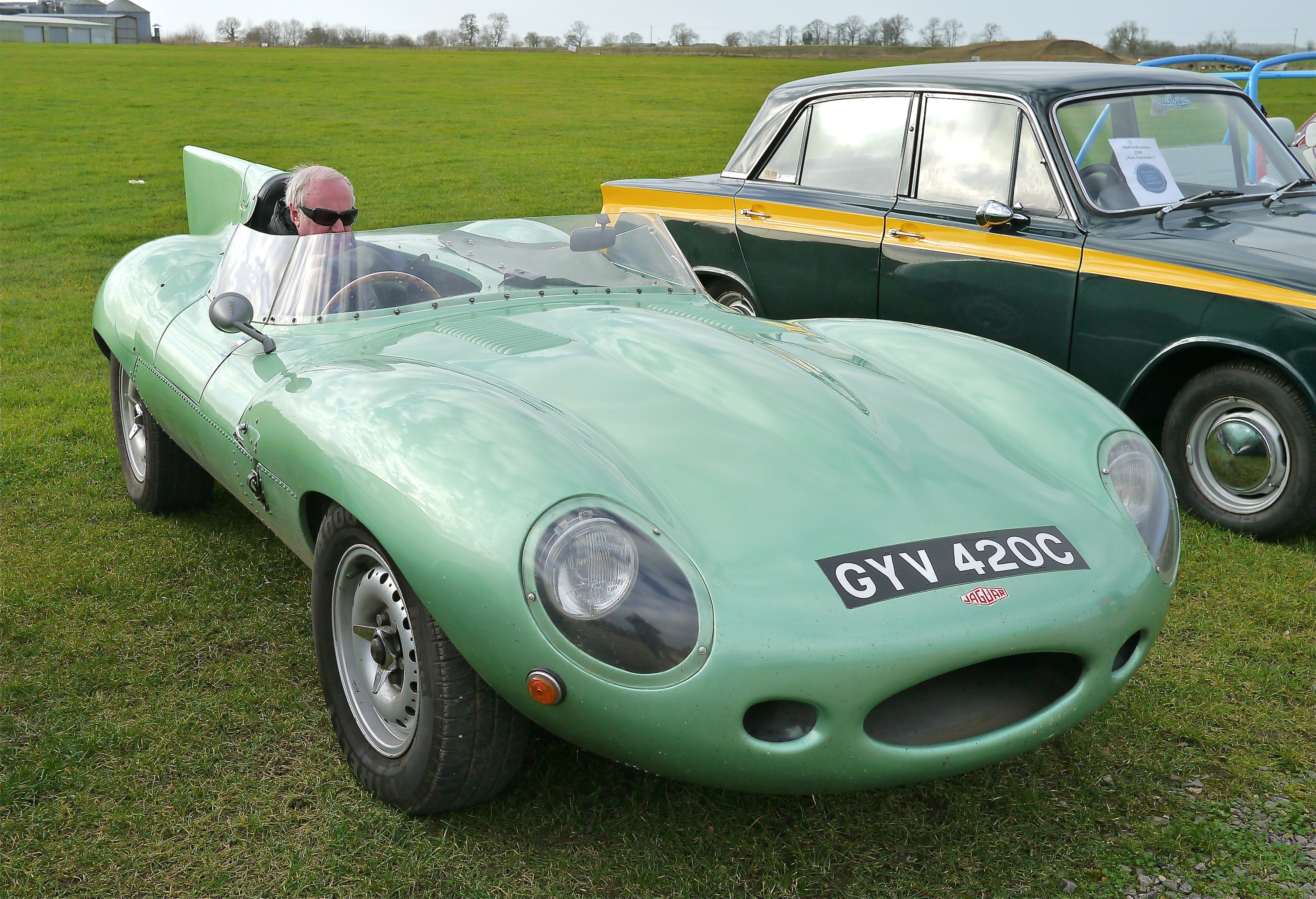 Panasonic G3 20mm Pancake Lens